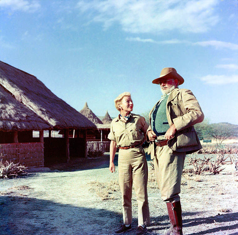 Ernest and Mary Hemingway on safari in Kenya, Africa, 1953-1954.